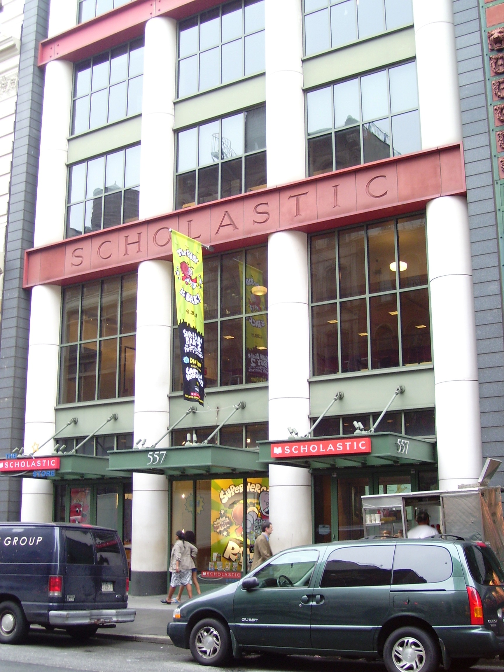 The Scholastic Building at 557 Broadway between Prince and Spring Streets in the SoHo neighborhood of Manhattan, New York City, was the first new building to be constructed in the SoHo-Cast Iron Historic District, replacing a one story garage built in 1954. Completed in 2001, it is the only New York City work by the Italian architect Aldo Rossi. (Sources: AIA Guide to NYC (4th ed.) and "NYCLPC SoHo - Cast-Iron Historic District Designation Report")